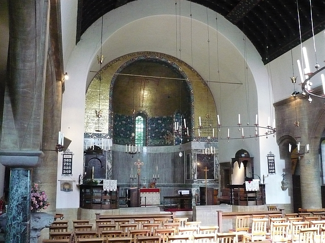 Wisdom of God interior Basilica-like interior.